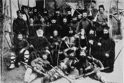 Picture of Bulgarian exarchist priests and VMRO comitas